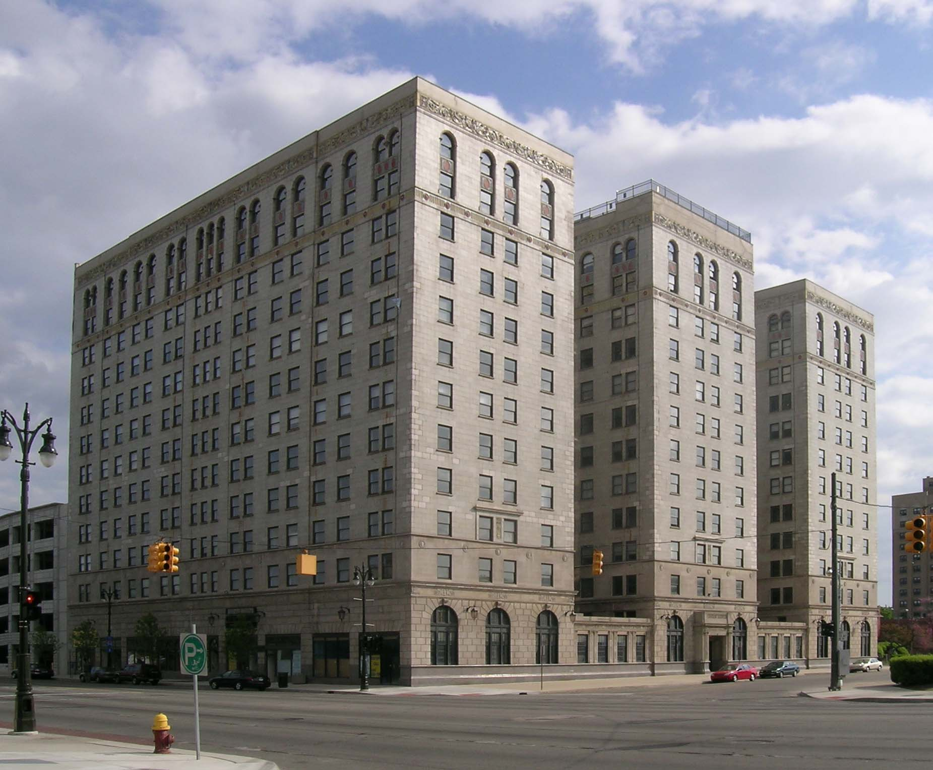 The Wardell (Park Shelton Apartments) in Detroit, Michigan.